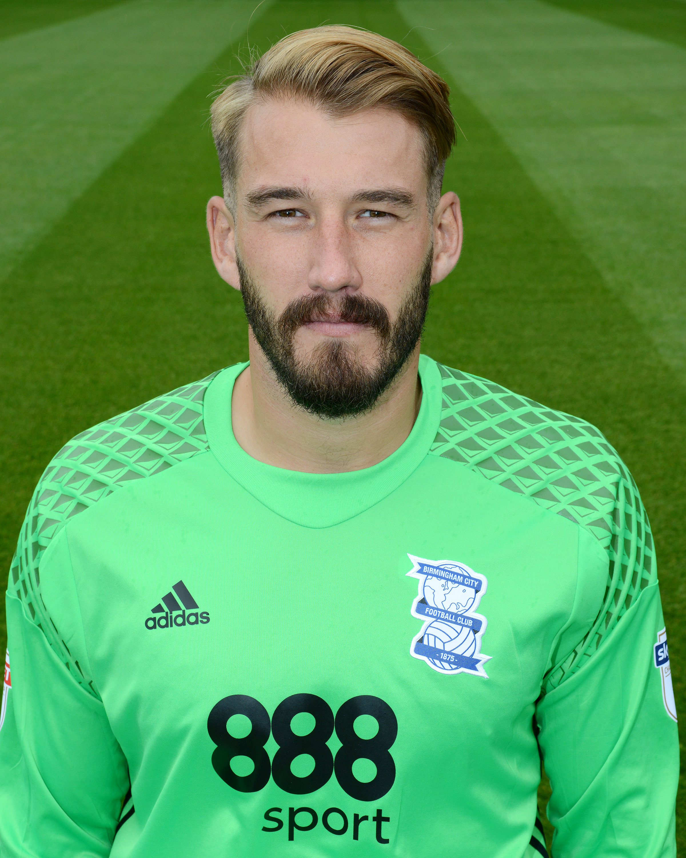 Adam Legzdins in Birmingham City F.C. keeper kit, 2016